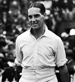 Herbert Sutcliffe crickter, in 1921.